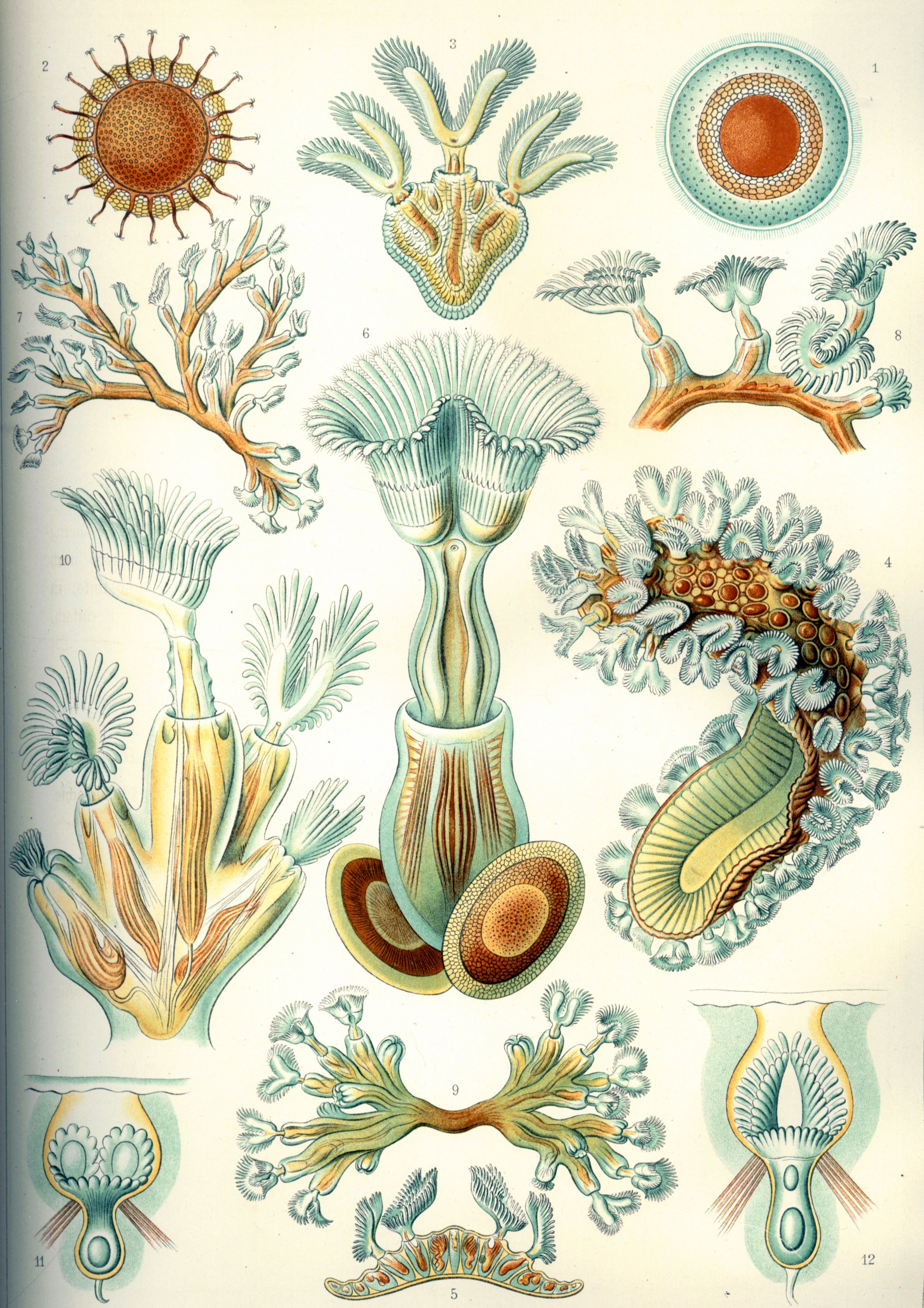 Enlarge image for index to numbers. Cristatella mucedo (Cuvier) = Cristatella mucedo Cuvier 1798, immature statoblast Cristatella mucedo (Cuvier) = Cristatella mucedo Cuvier 1798, mature statoblast Cristatella mucedo (Cuvier) = Cristatella mucedo Cuvier 1798, young colony Cristatella mucedo (Cuvier) = Cristatella mucedo Cuvier 1798, mature colony Cristatella mucedo (Cuvier) = Cristatella mucedo Cuvier 1798, mature colony in cross-section Plumatella repens (Lamarck) = Plumatella repens (Linnaeus 1758), individual before colony formation Plumatella repens (Lamarck) = Plumatella repens (Linnaeus 1758), young colony Plumatella repens (Lamarck) = Plumatella repens (Linnaeus 1758), part of young colony Alcyonella flabellum (Van Beneden) = Plumatella fungosa (Pallas 1768), young colony Lophopus crystallinus (Dumortier) = Cristatella mucedo Cuvier 1798, young colony Lophopus crystallinus (Dumortier) = Cristatella mucedo Cuvier 1798, young developing individual in colony Lophopus crystallinus (Dumortier) = Cristatella mucedo Cuvier 1798, older developing individual in colony